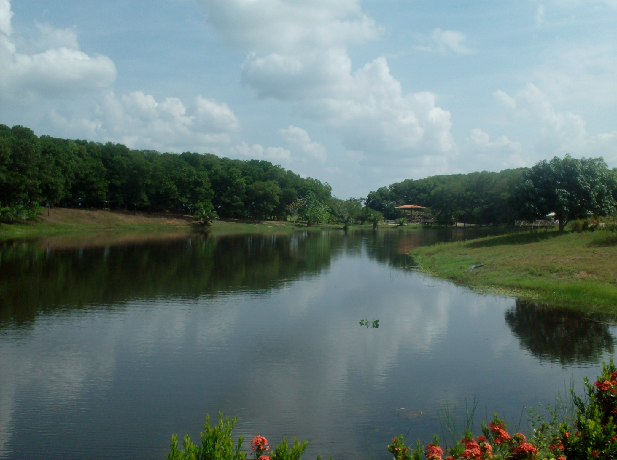 Vista del Parque Ecologico